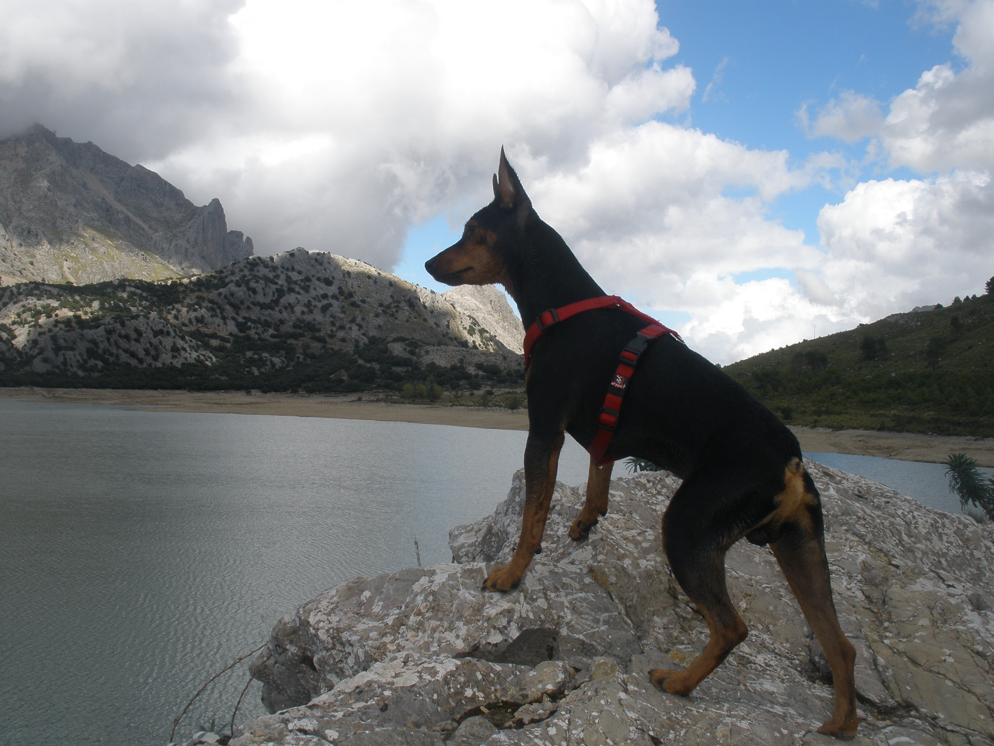 Dog spanish mallorca ca rater mallorqui ratero mallorquin